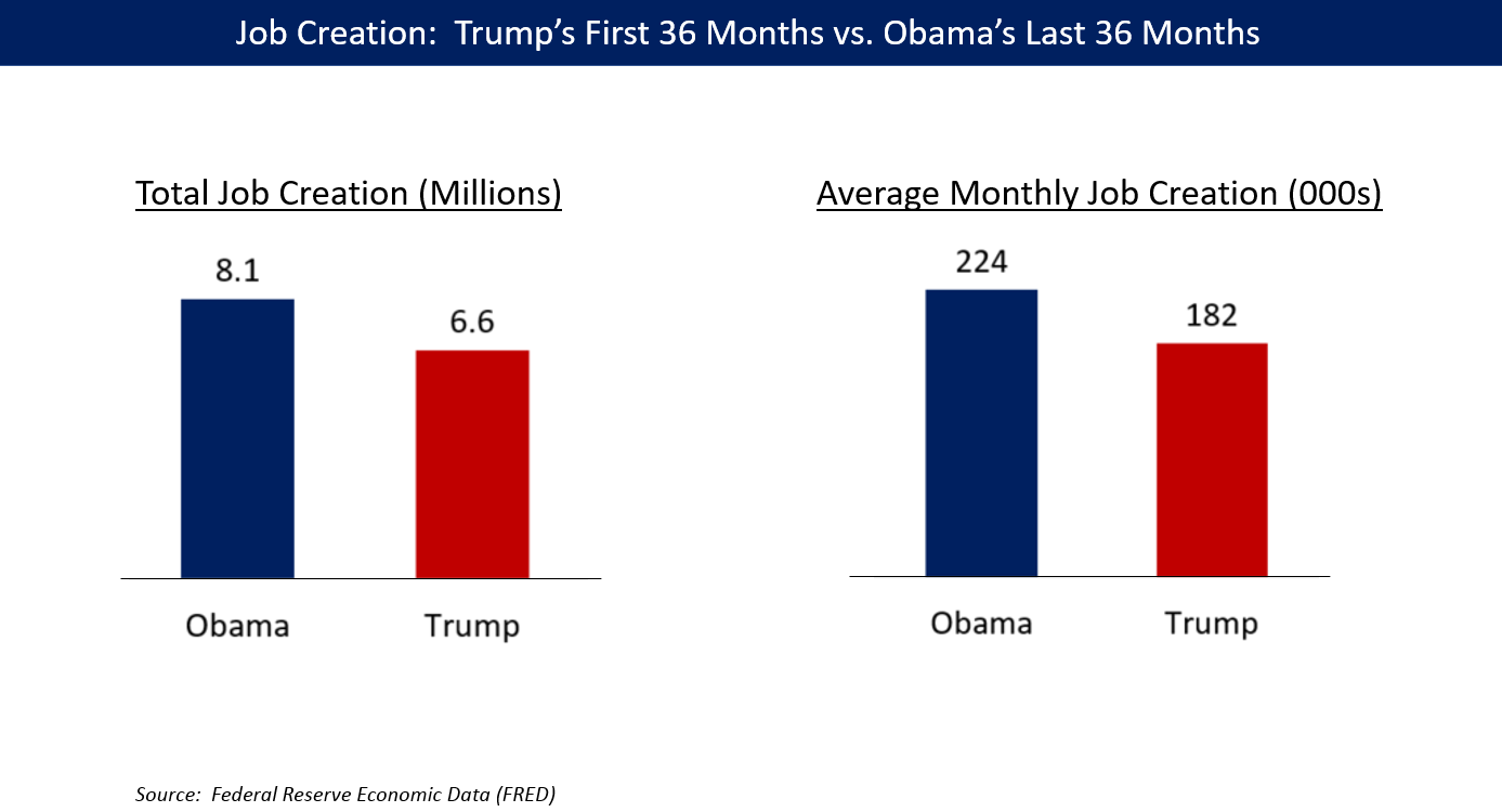 Job creation for Trump's first 33 months (through October 2019) vs. Obama's last 33 months